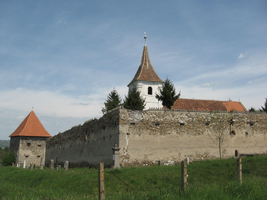 Covasna County, Aita Mare, The unitarian church